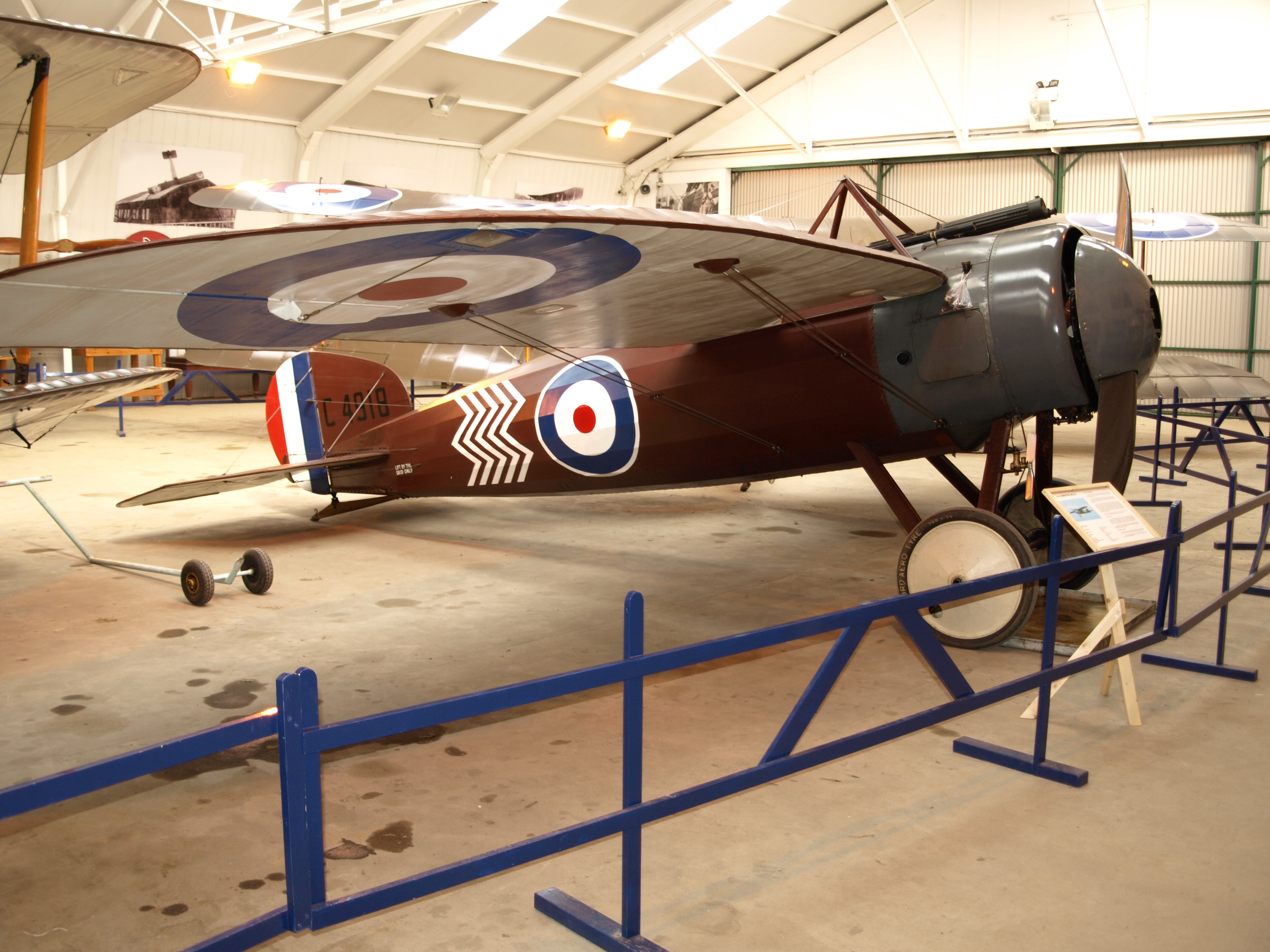 Bristol M1C monoplane at the Shuttleworth Collection